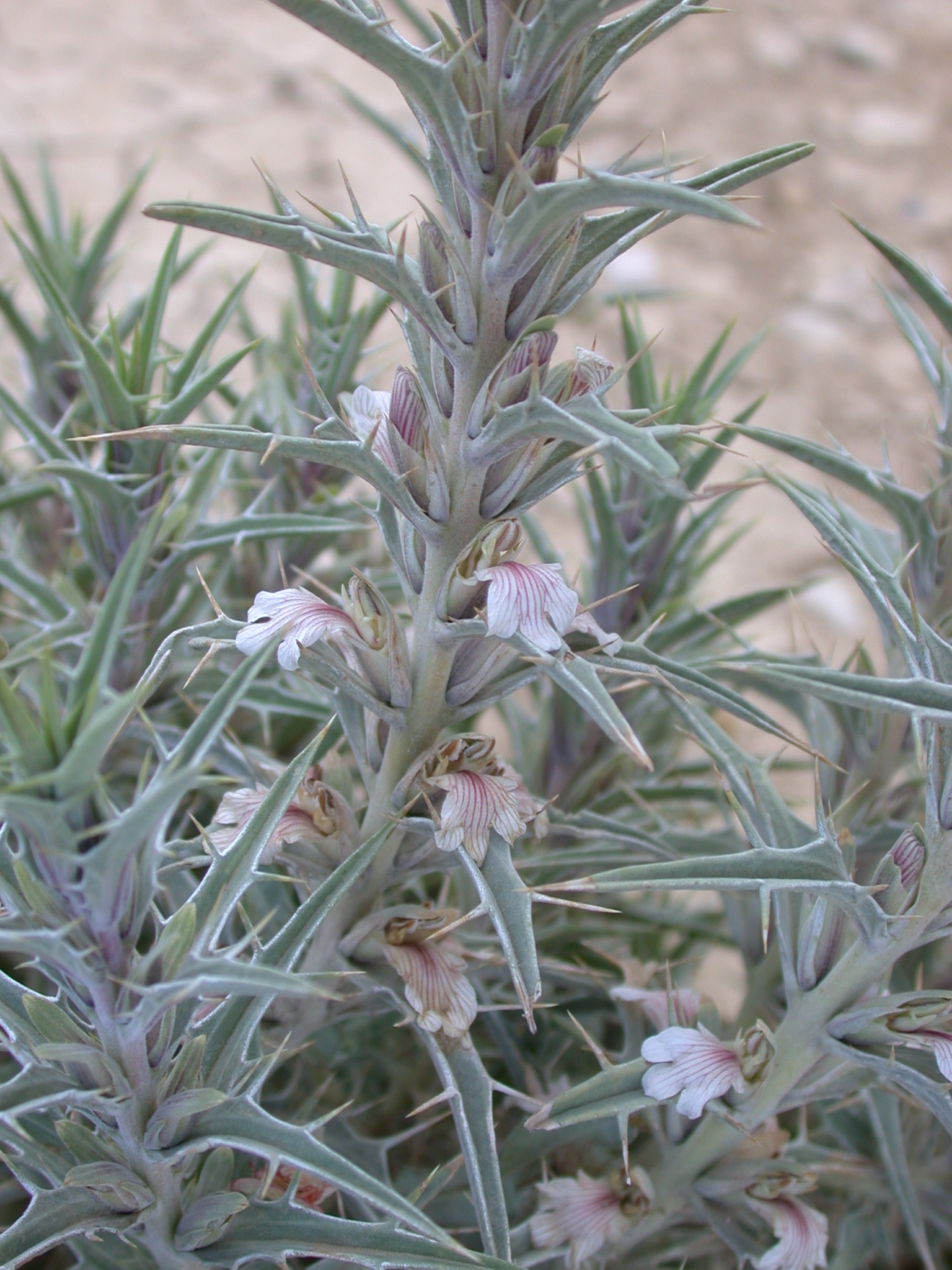 Blepharis attenuata Napper (ריסן דק), Judean Desert, Israel, March 15, 2007.